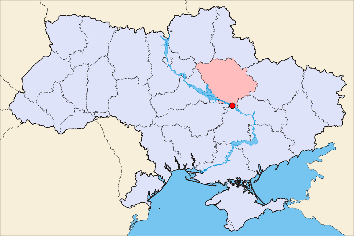 Description = Perevolochna geographical position Source = own work, Skluesener Date = 21.01.2006 Author = Skluesener Credits = Colours chosen according to a map of steschke